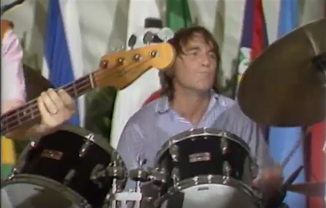 Dennis Wilson drumming with the Beach Boys in June 12, 1983